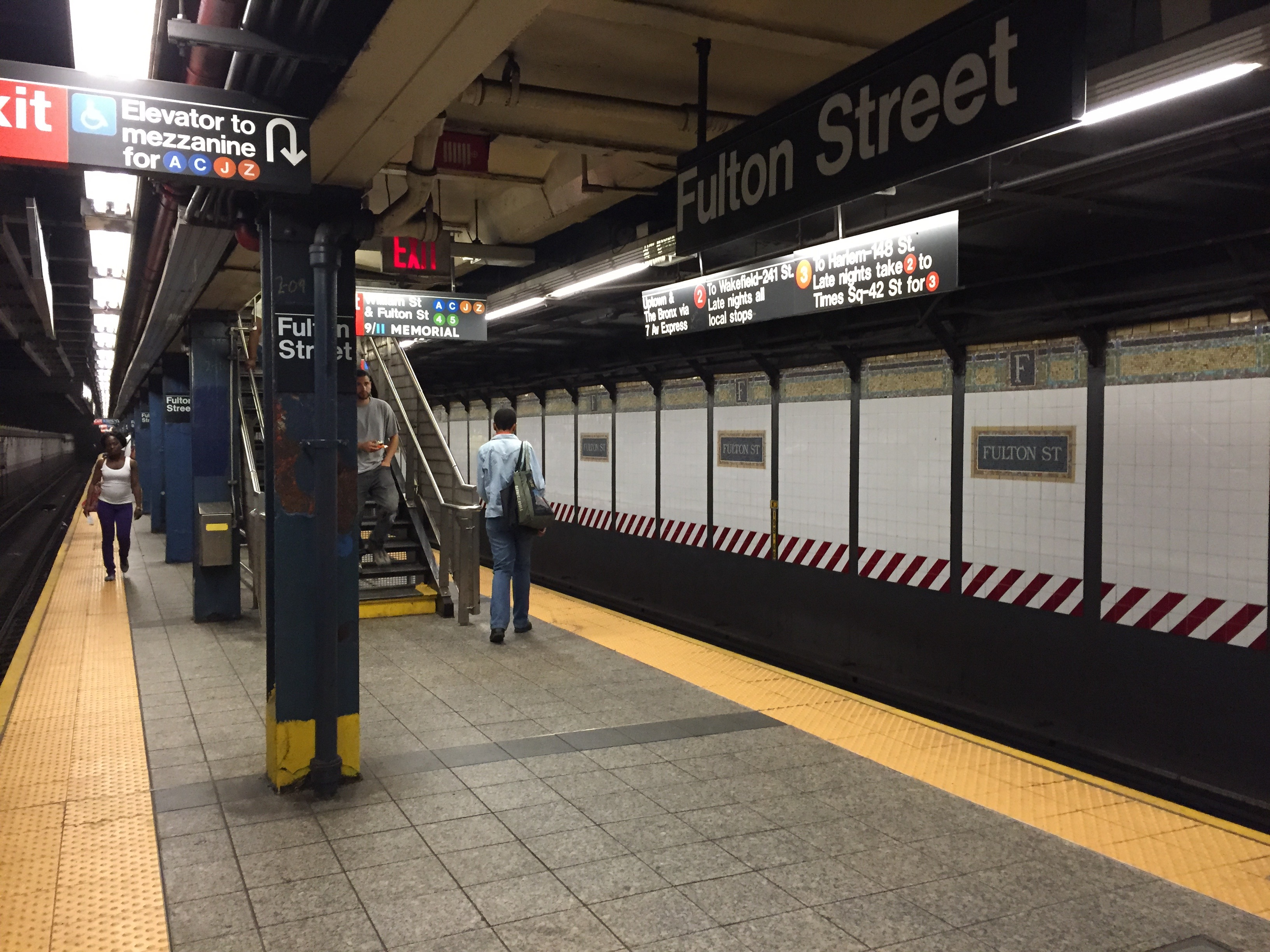 2/3 platform at Fulton Street.